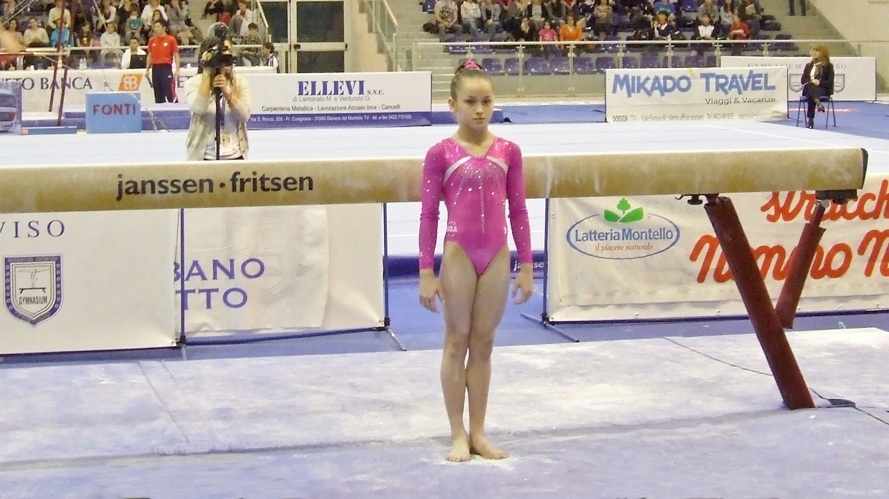 Norah Flatley and Liang Chow at 7th City of Jesolo Trophy